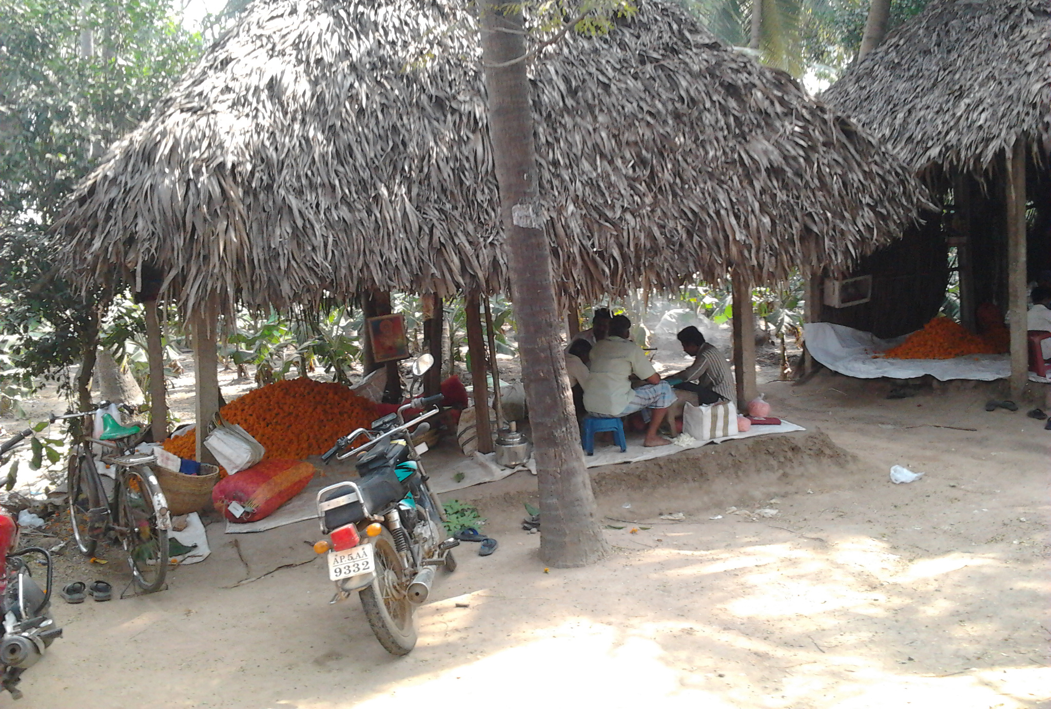 కాకారపర్రు గ్రామ పూల దుకాణాల సముదాయం